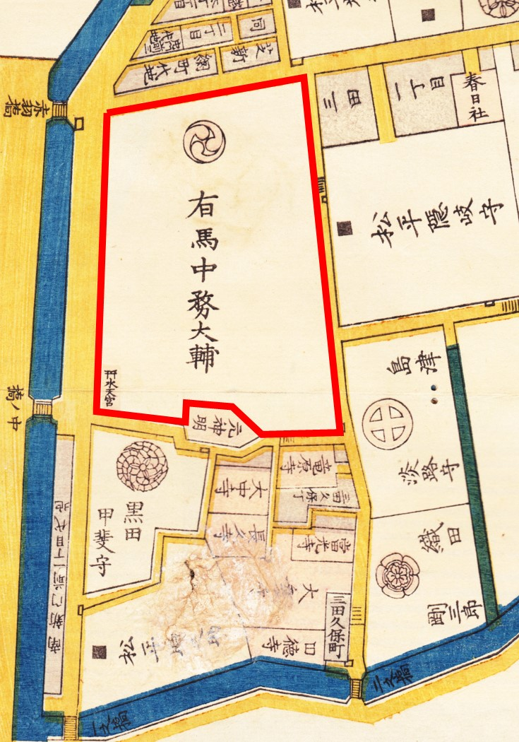 Arima residence at Edo marked